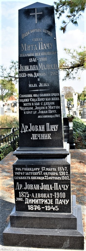 Jovan Pacu, doctor, composer and pianist is buried in Kikinda, at cemetery called Melino groblje Srpski (latinica): Jovan Paču, lekar, kompozitor i pijanista, sahranjen je u Kikindi na Melinom groblju.